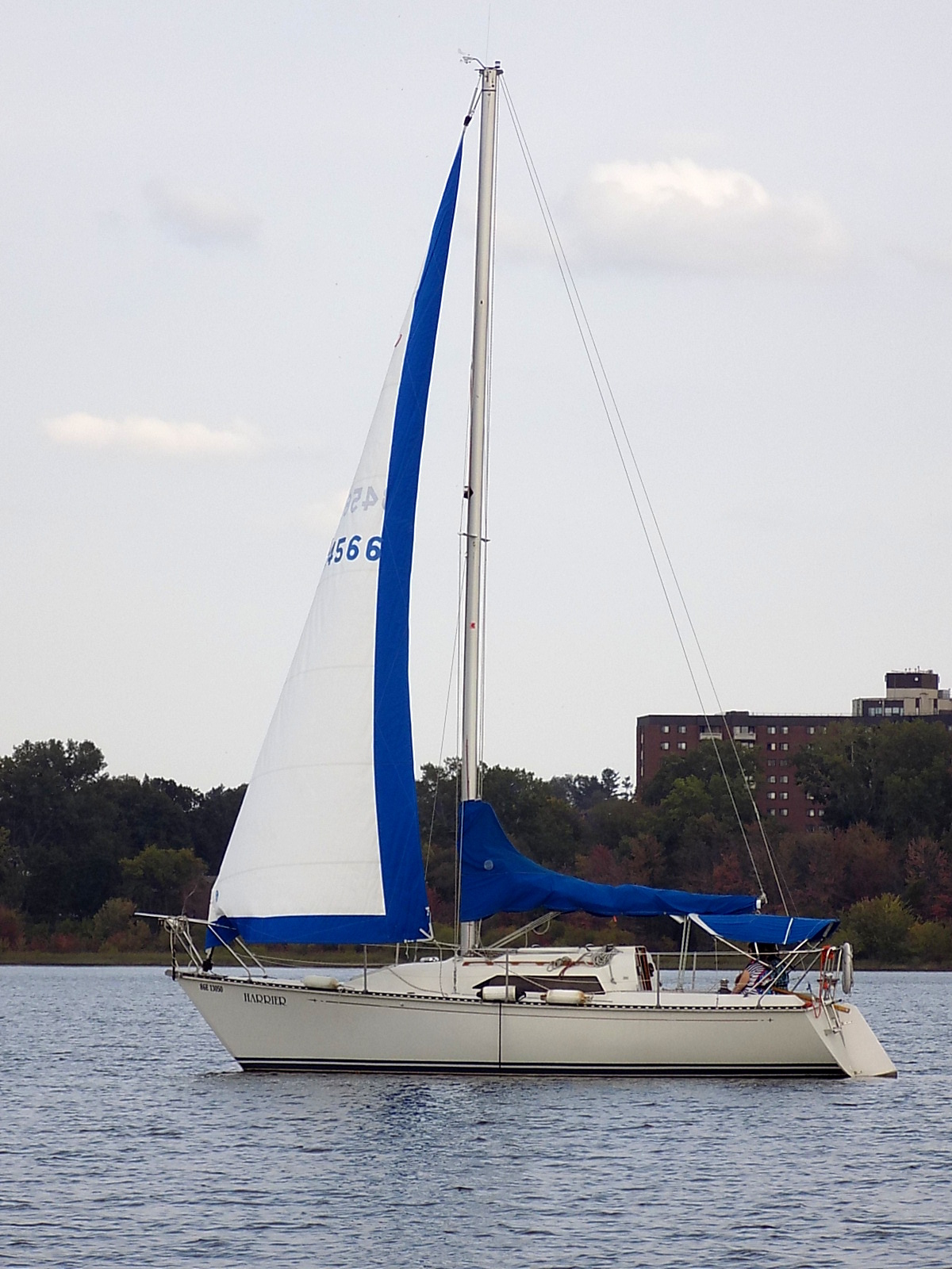 A C&C 27 Mark V sailboat named Harrier.